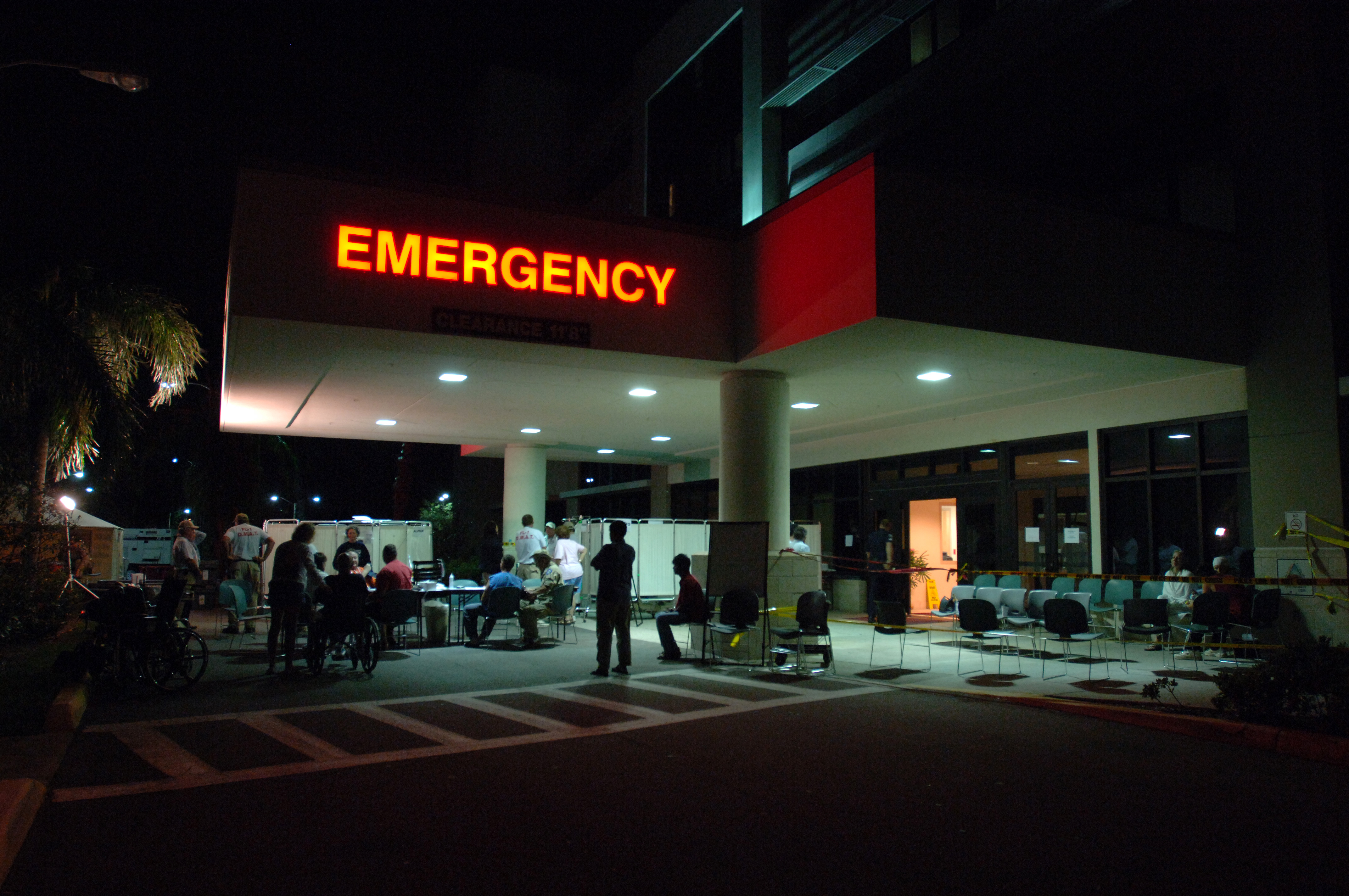 Boynton Beach, FL, October 29, 2005 -- FEMA Disaster Medical Assistance Team members have set up a temporary emergency room outside of the the JFK Medical Center. The DMAT is set up in the entry way of the hospital to assist in seeing the increase flow of patients due to Hurricane Wilma. Jocelyn Augustino/FEMA